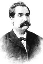 Portrait of Mihai Eminescu (1850 - 1889) - photograph by Jean Bieling, Botoşani, 1887-1888